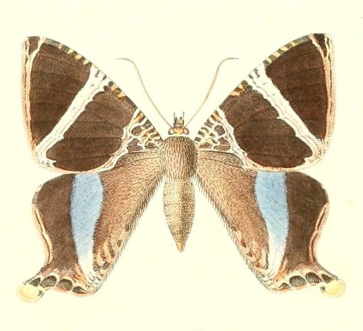 Coronis hysudrus = Coronidia hysudrus